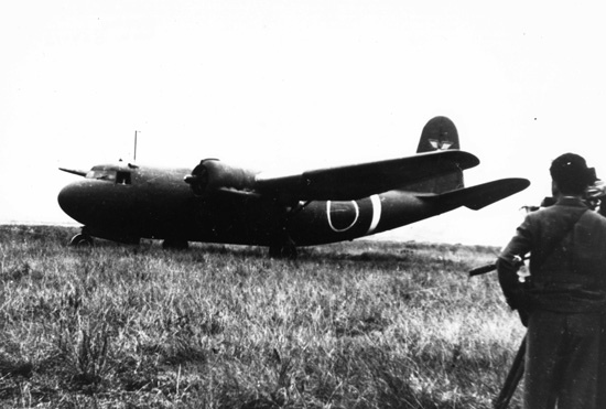 A captured Douglas DC-5 in service with the Japanese Army. This aircraft, the ex-KLM "PK-ADA" was used to ferry refugees to Australia. It was about to take off from Kemayoran airport at Jakarta (then Batavia) in April 1942 when it was damaged and had to be abandoned. It was repaired by the Japanese and flown to Japan where it was studied at the Tachikawa Aeronautical Institute. It ended its life as a navigational trainer there.